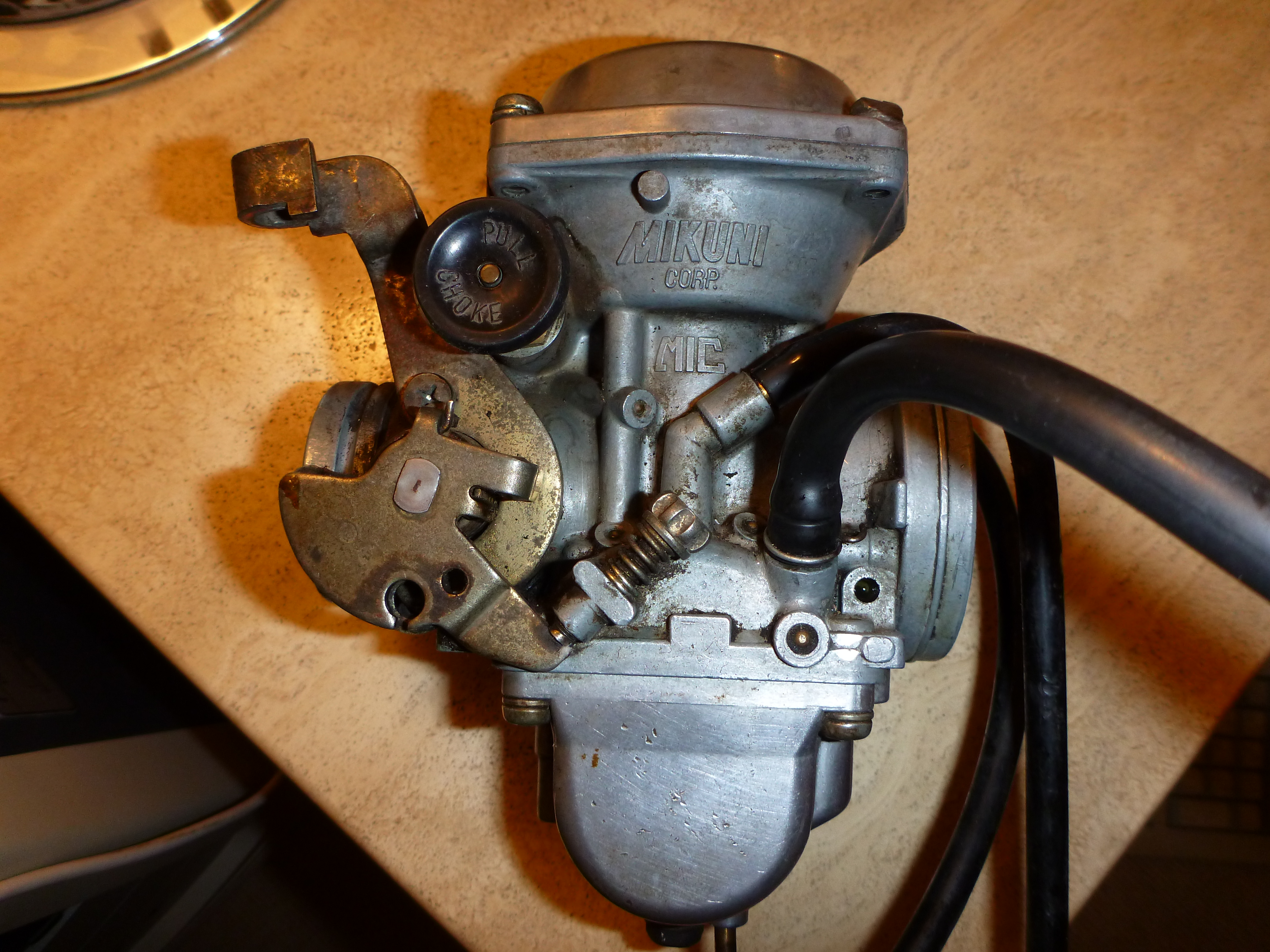 Mikuni BS 36 SS Carburetor from a Suzuki GN400